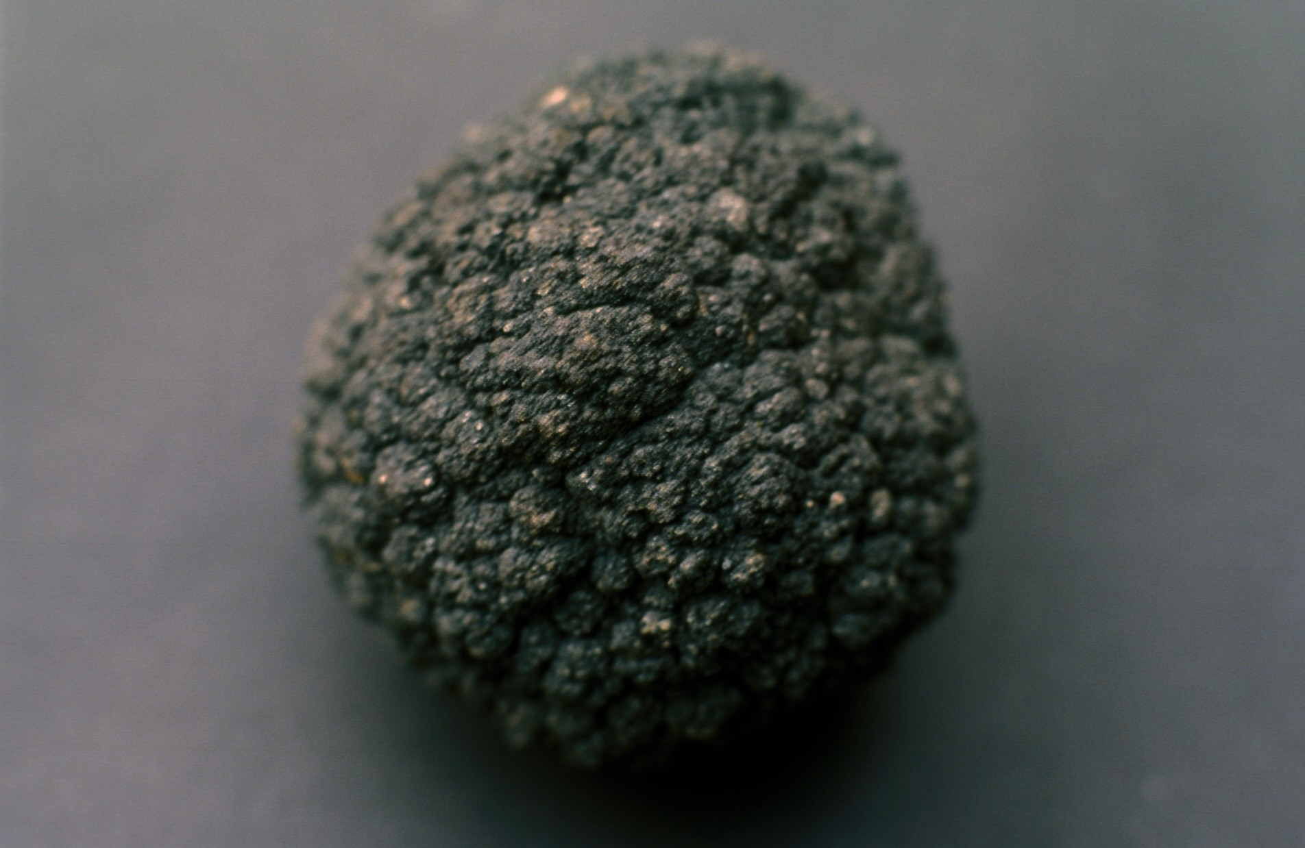 Manganese nodule collected in 1982 from the Pacific. Image width: 8 in